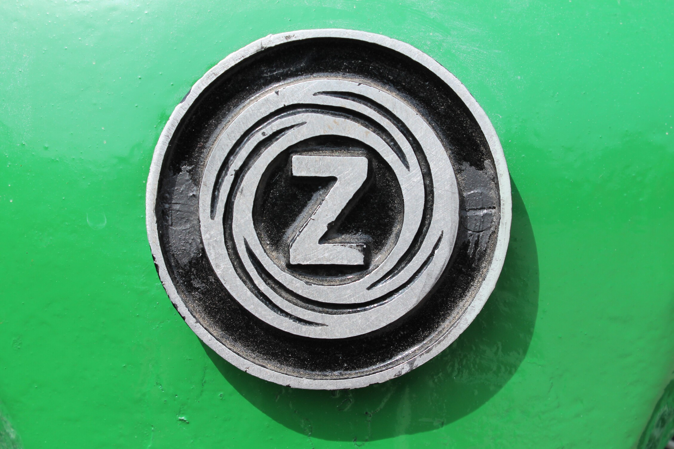 Zbrojovka Brno logo on Zetor 50 Super tractor, depository of Technical Museum in Brno, Czech Republic